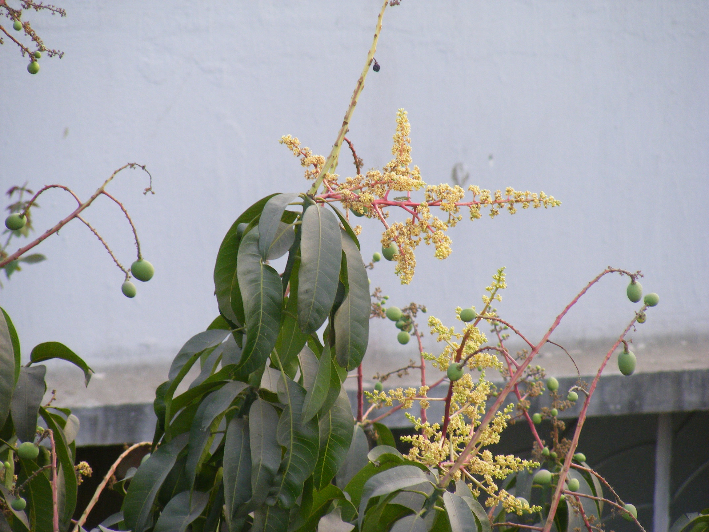 Mangifera inflorescence